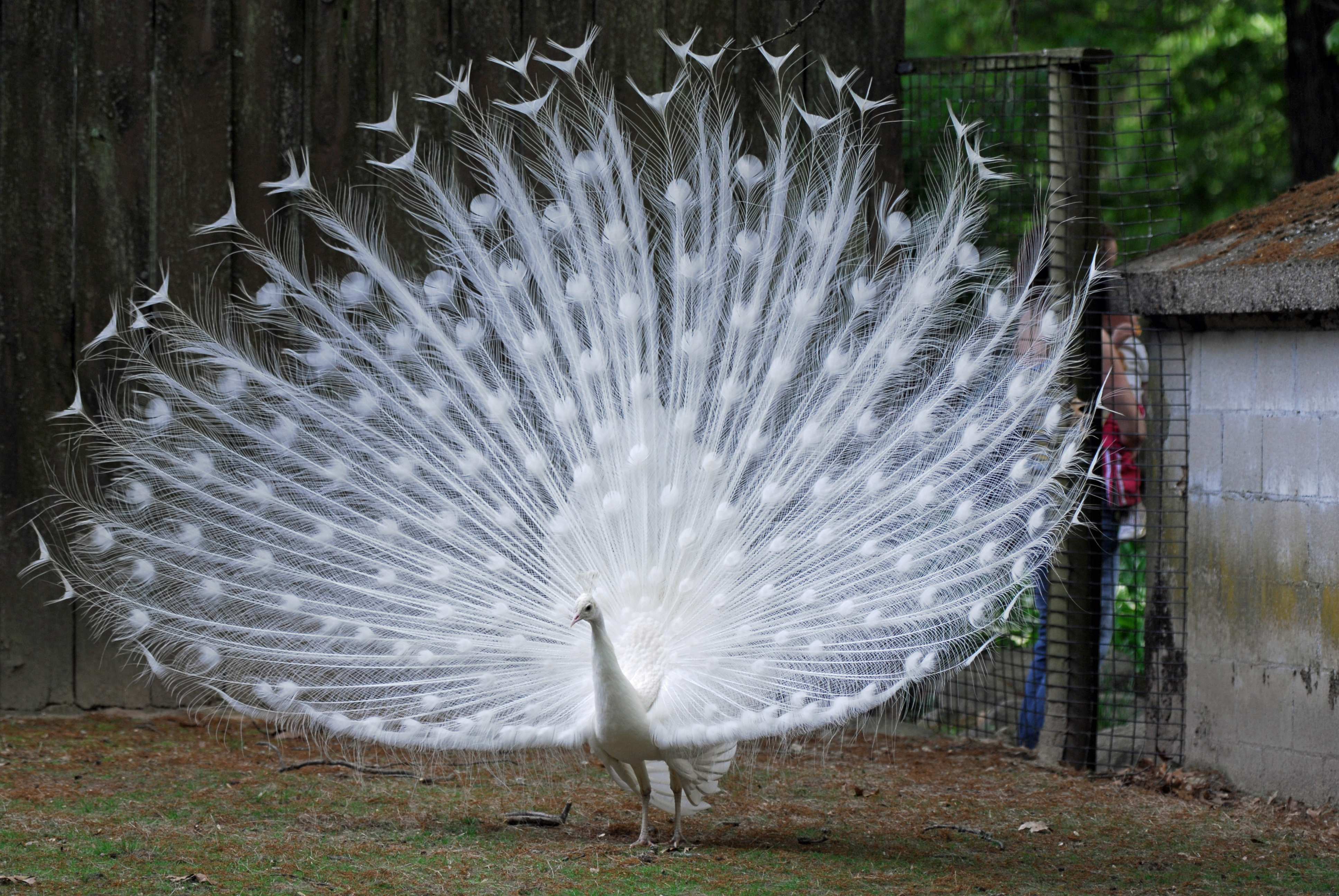 An albino Indian Peafowl at Southwick's Zoo, Massachusetts, USA.